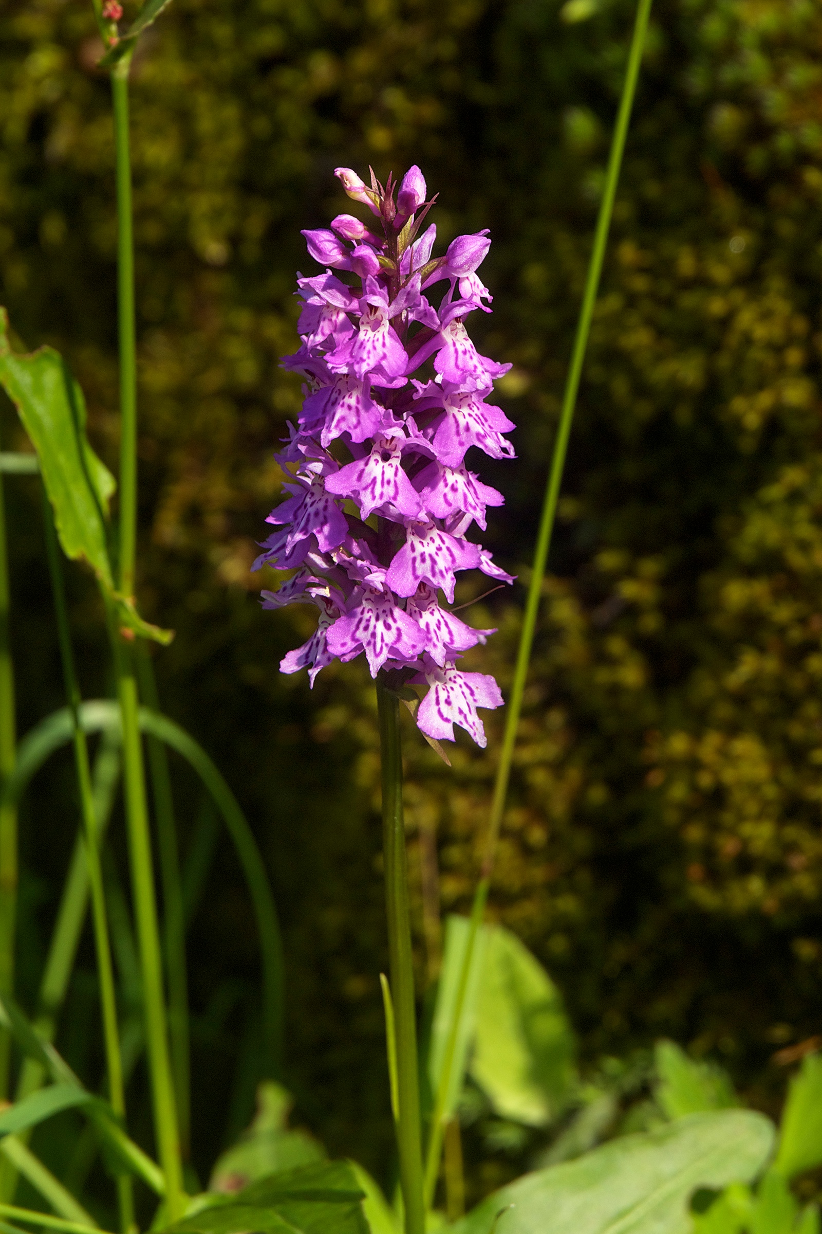 Heath Spotted Orchid (Dactylorhiza maculata), Briksdalen, Norway